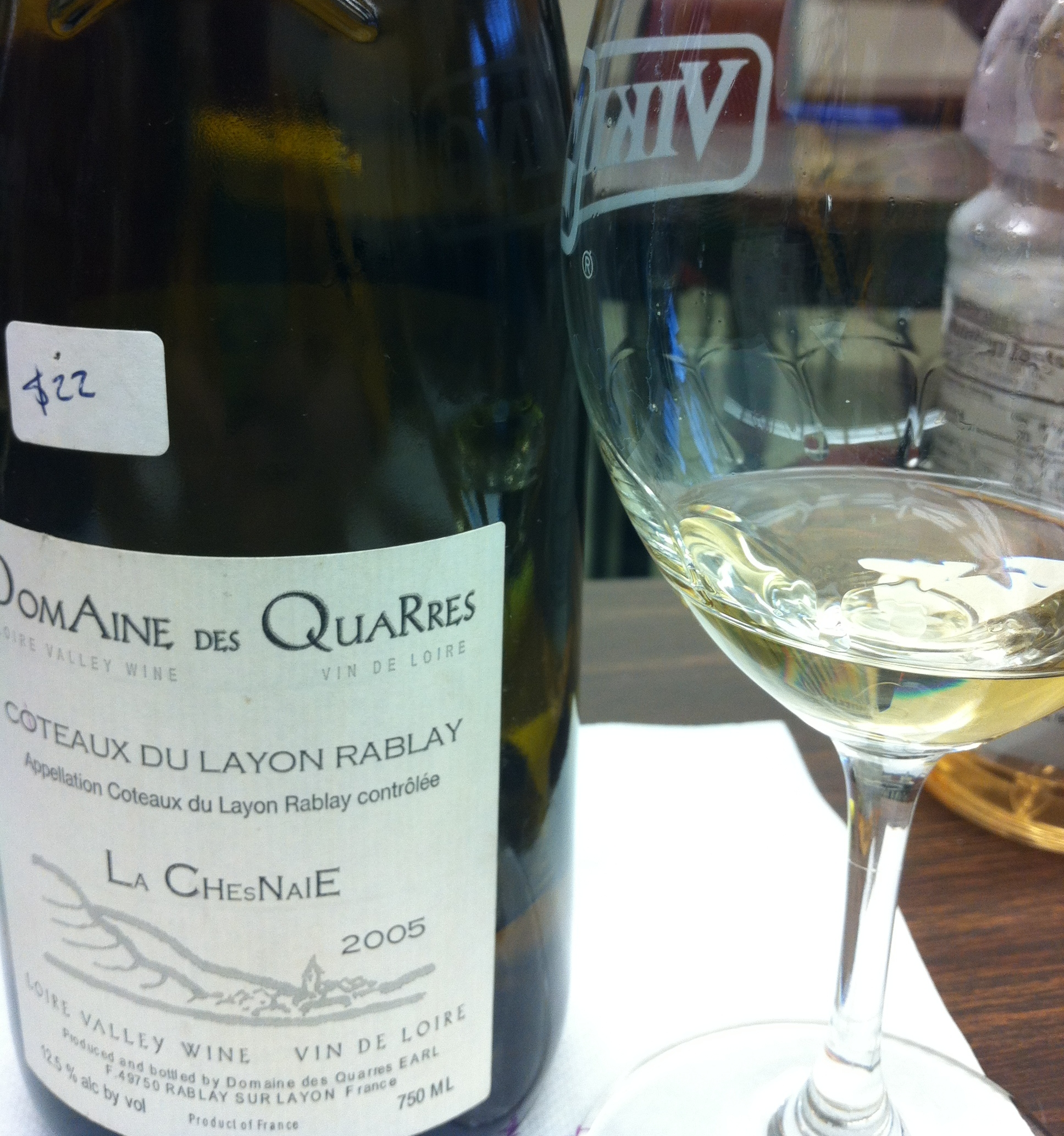 Sweet French wine from the Coteaux du Layon Rablay AOC in the Loire Valley made from Chenin blanc